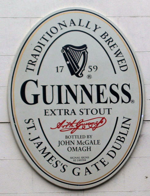 Pub plaque, Omagh. It is positioned on the Kevlin Road side-wall of "The Terrace" on John Street.